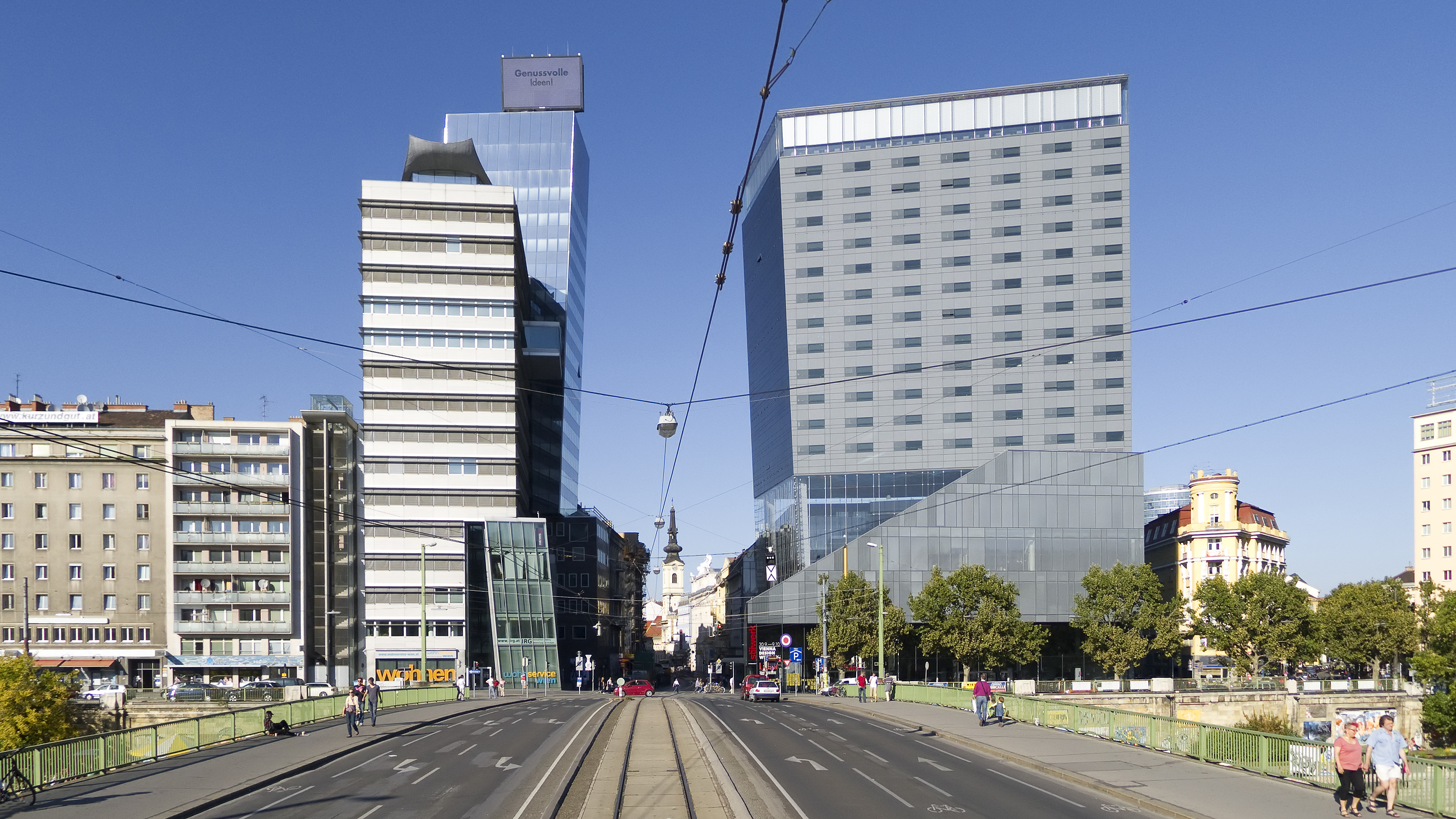 Taborstraße ab Nr. 01, Vienna 2